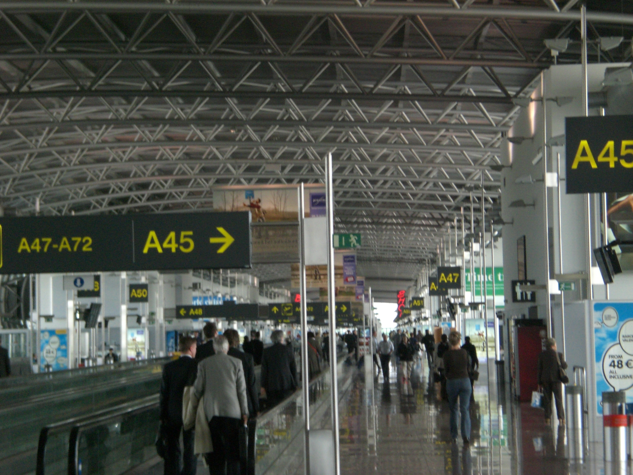 traffic at the Brussels Airport